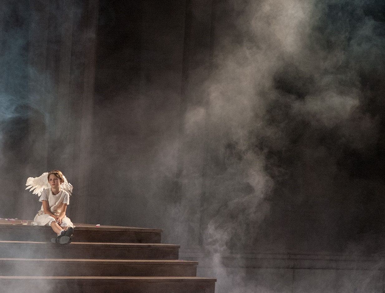 Jedermann 2014 Angel